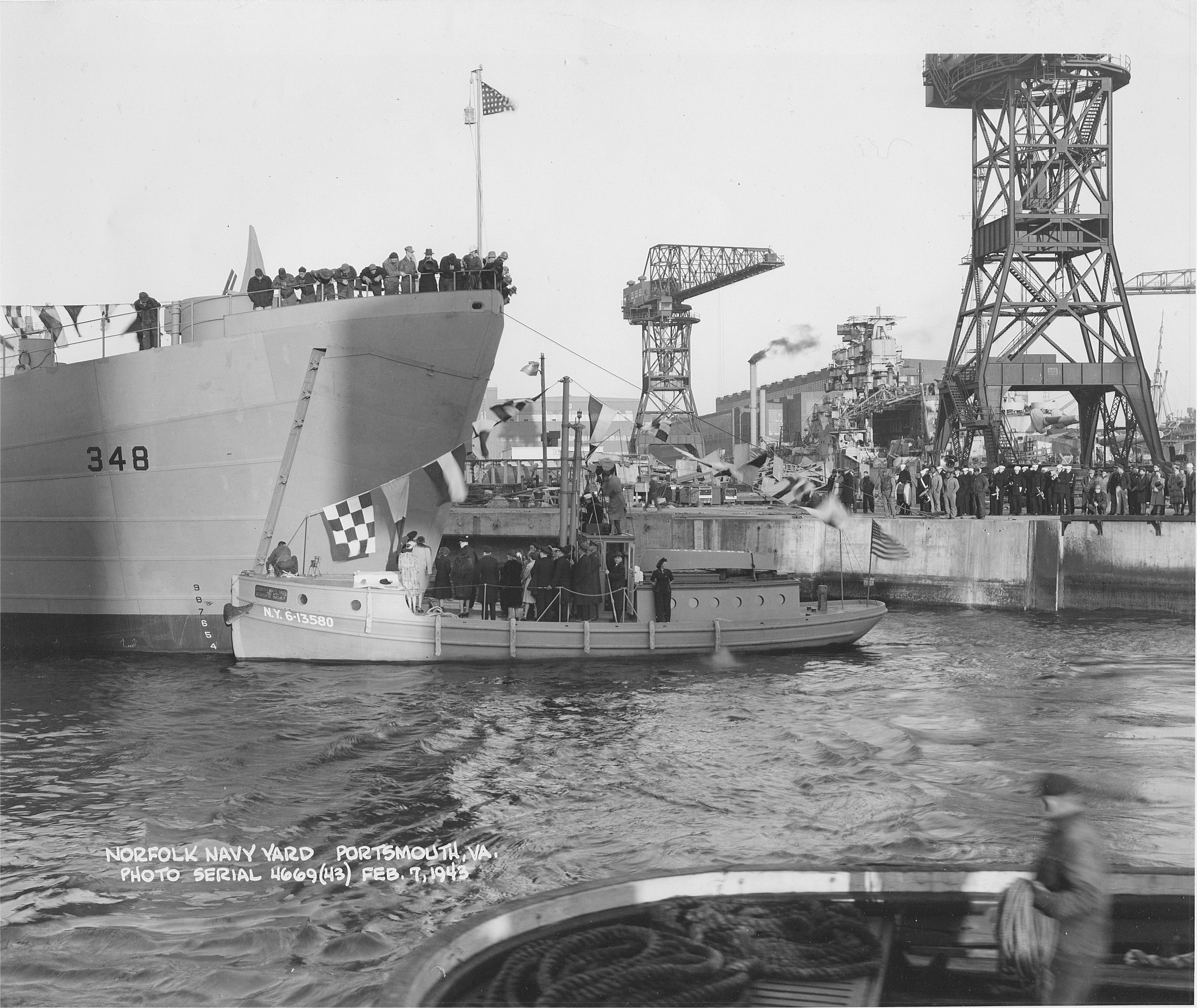 LST-348 at Portsmouth, 7 February 1943. US Navy photo serial 4669(43)